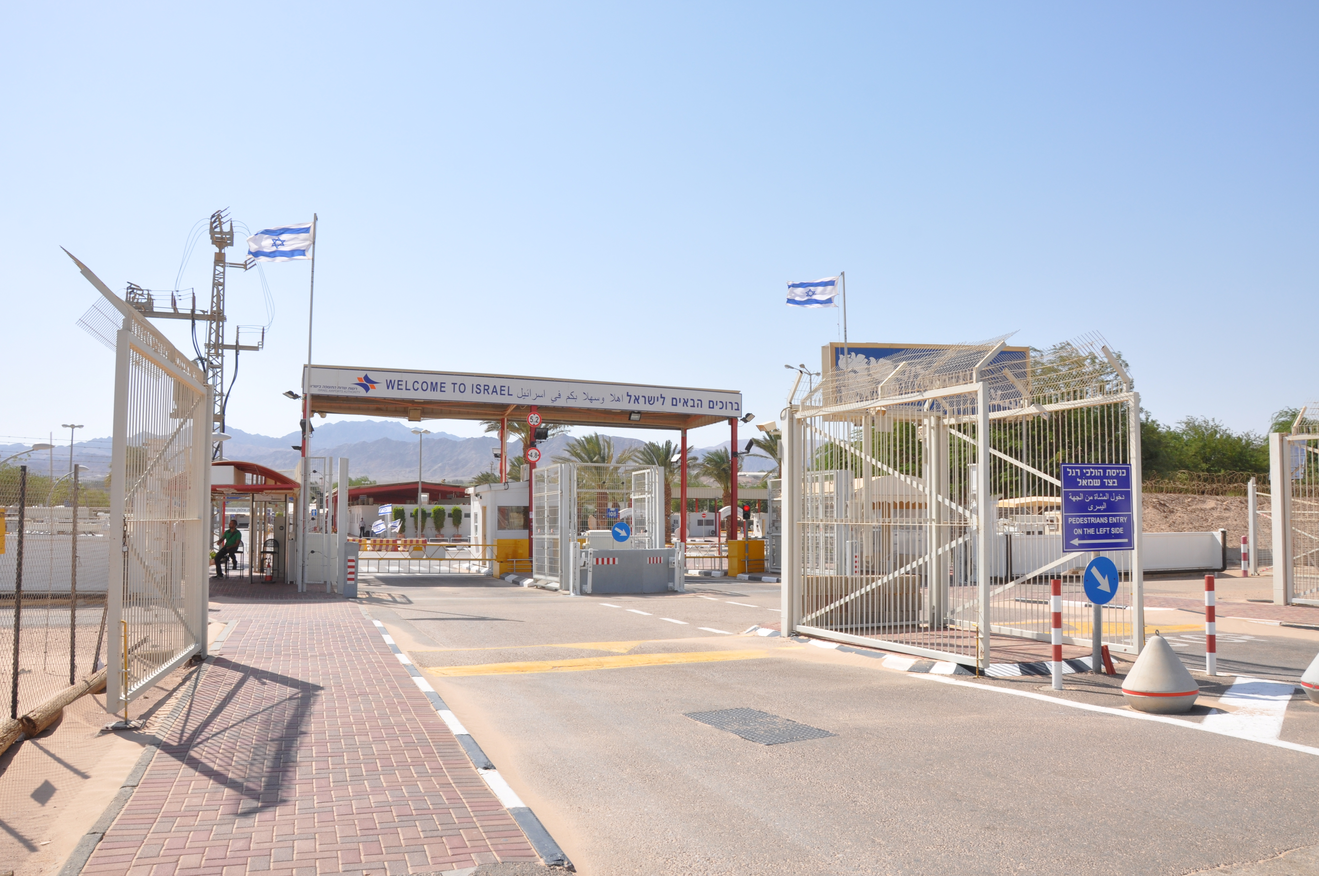 The Wadi Araba Border Crossing is an international border crossing between Aqaba, Jordan and Eilat, Israel. Opened on August 8, 1994, it is currently one of three entry/exit points between the two countries that handles tourists. In February 2006, the Israelis renamed their border terminal to Yitzhak Rabin Terminal after the late Prime Minister. In 2010, 465,059 people and 8,007 vehicles had crossed the border